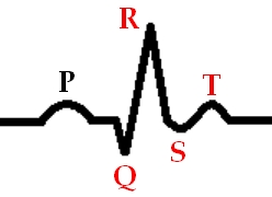 Заживший инфаркт миокарда